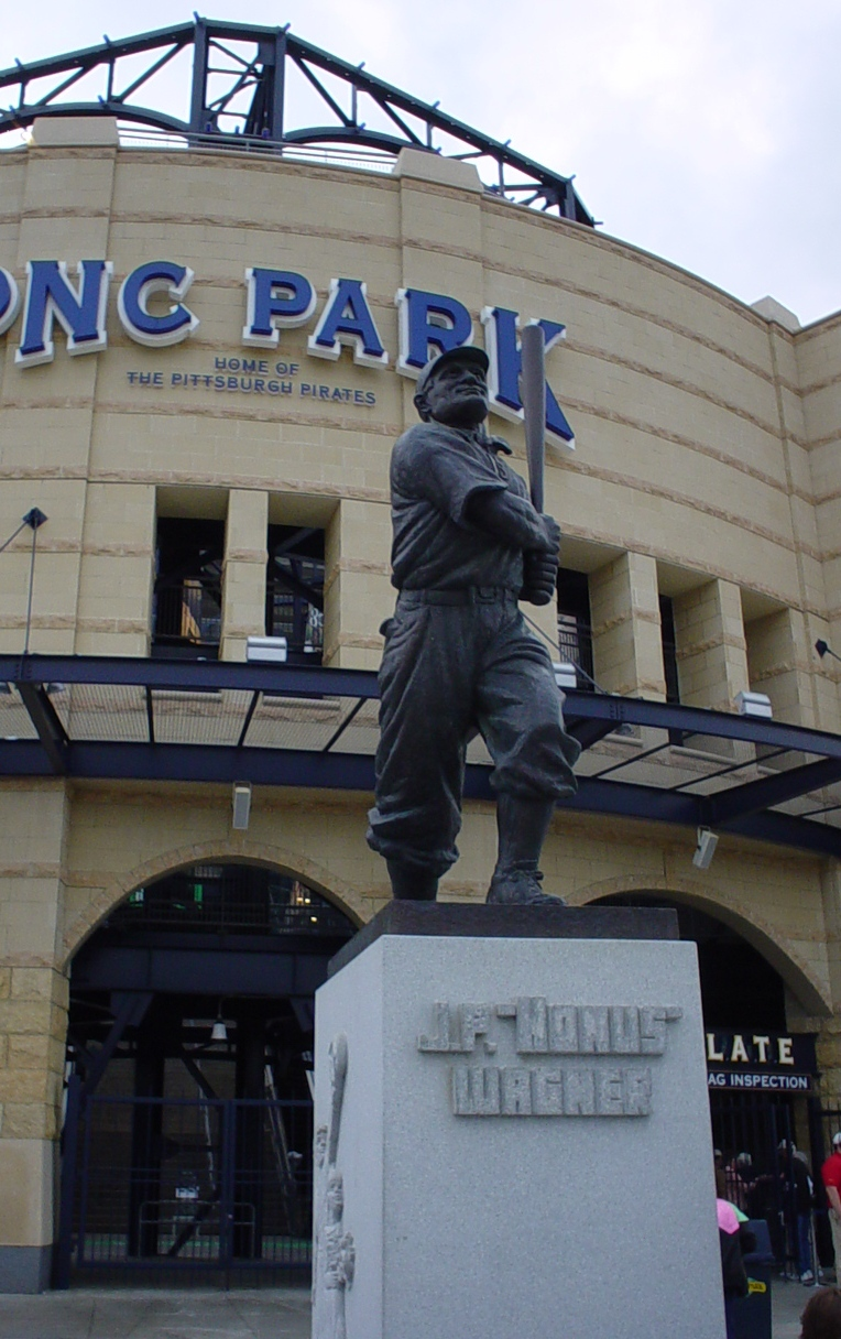 Photograph of statue of Honus Wagner, taken by myself in 2004: this is the third location of the statue. It was originally at Forbes Field in 1954 and Three Rivers Stadium in 1971 before coming to PNC Park in 2001.